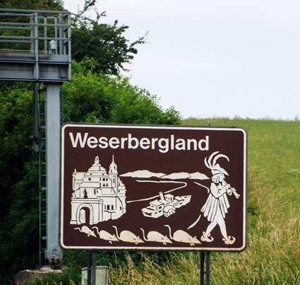 Information board on the A 2 in the Weser Mountains